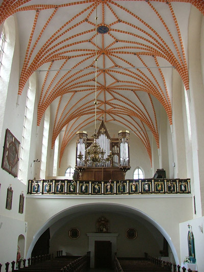 Church in Żarnowiec